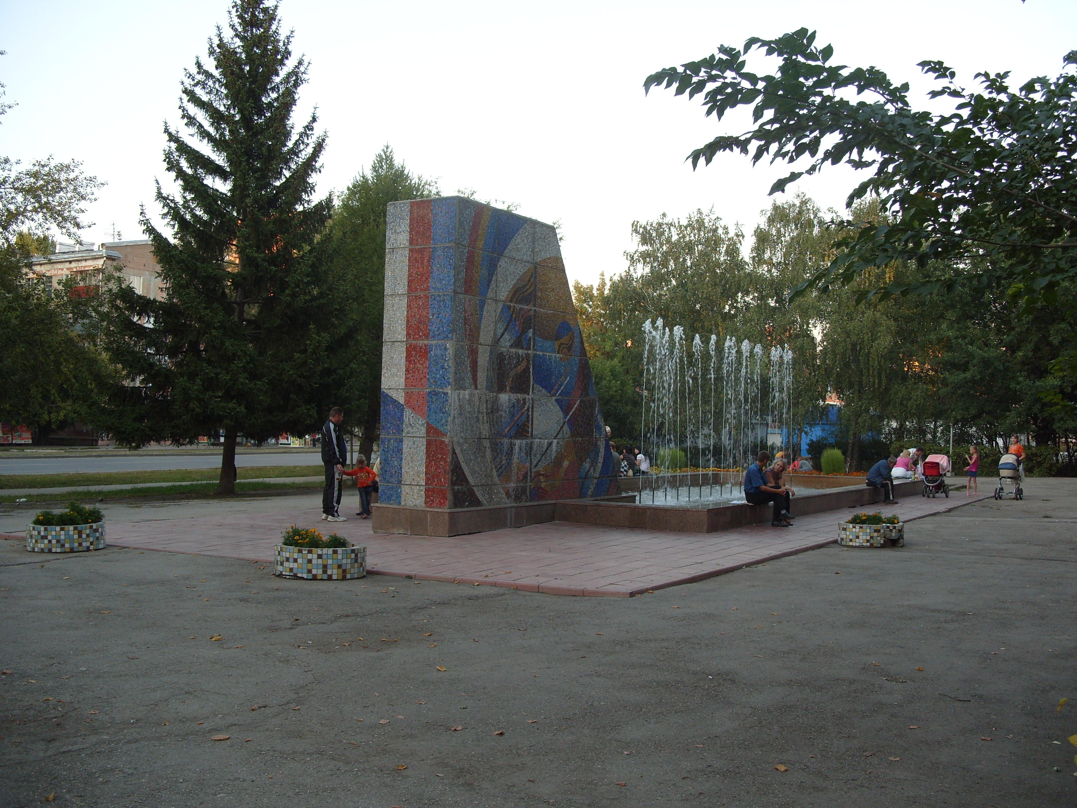 Fountain at Gagarina st., Samara